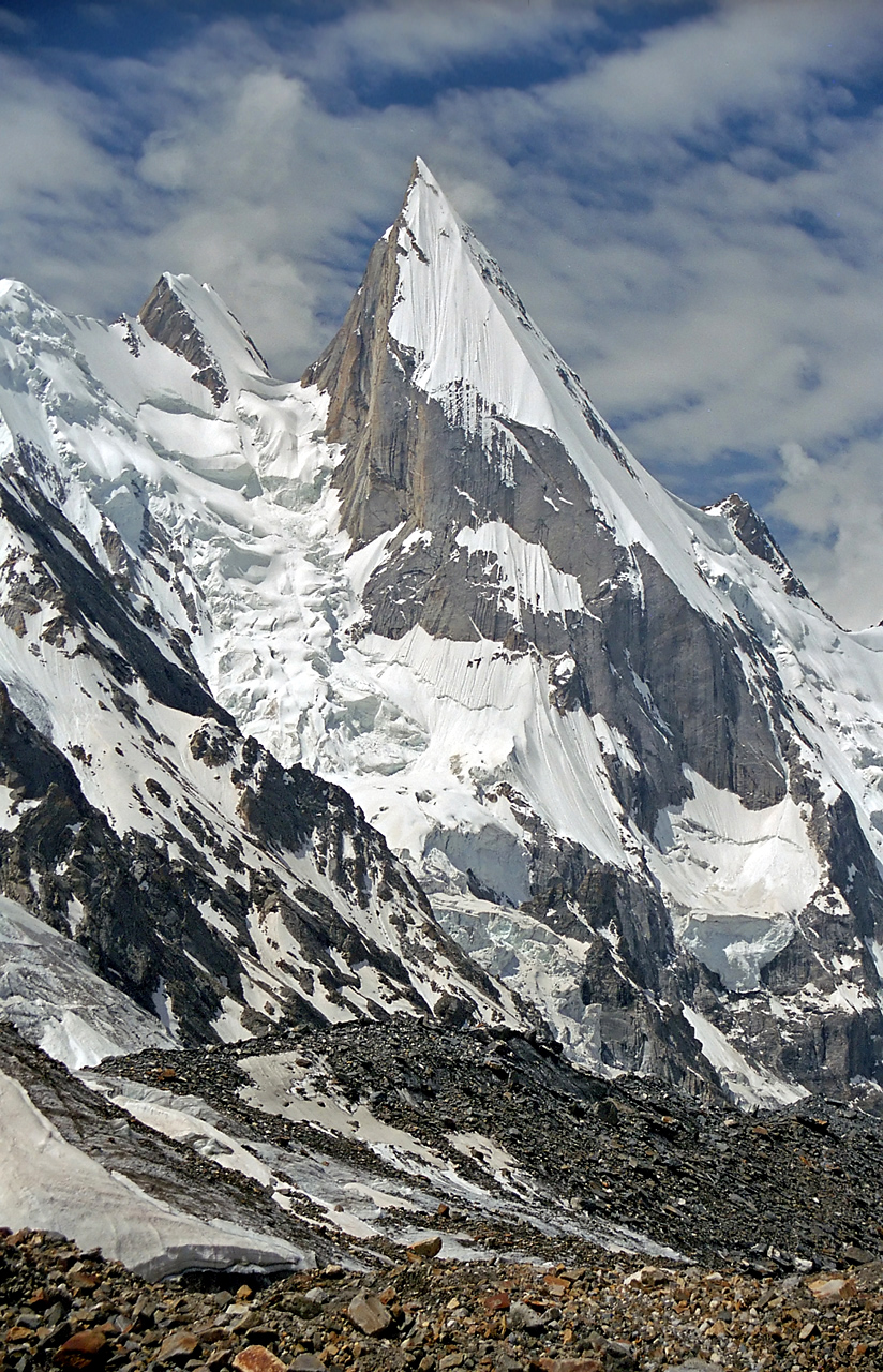 Laila Peak (Hushe Valley) (Gondogoro Glacier Area, Central Karakoram, Pakistan)